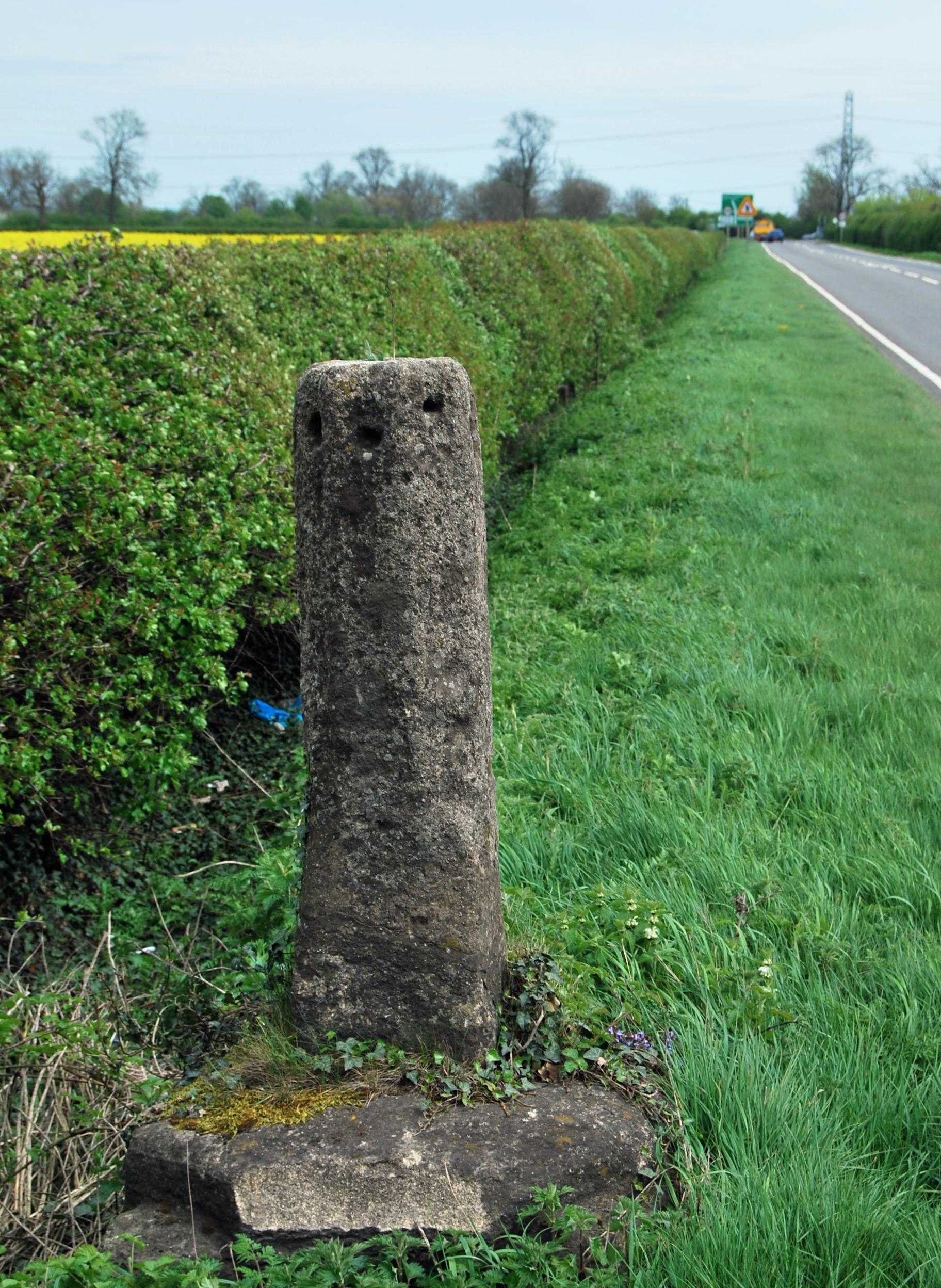 Base and broken shaft of a Mediæval stone cross beside the A607 road south of Frisby on the Wreake, Leicestershire